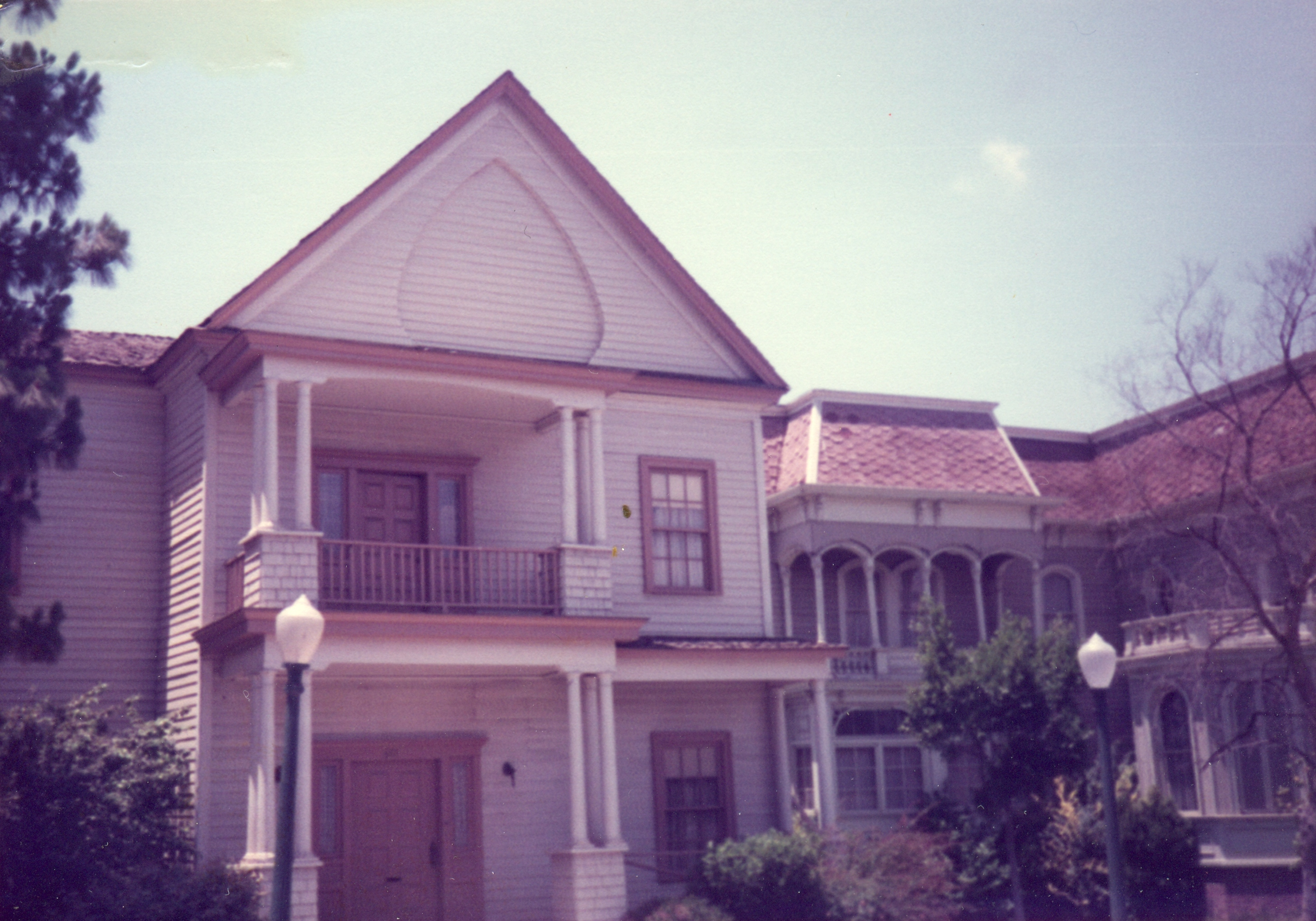 The outside view of the home set used to film exterior shots of the 1978 film Animal House. The set was located at Universal Studios Hollywood.